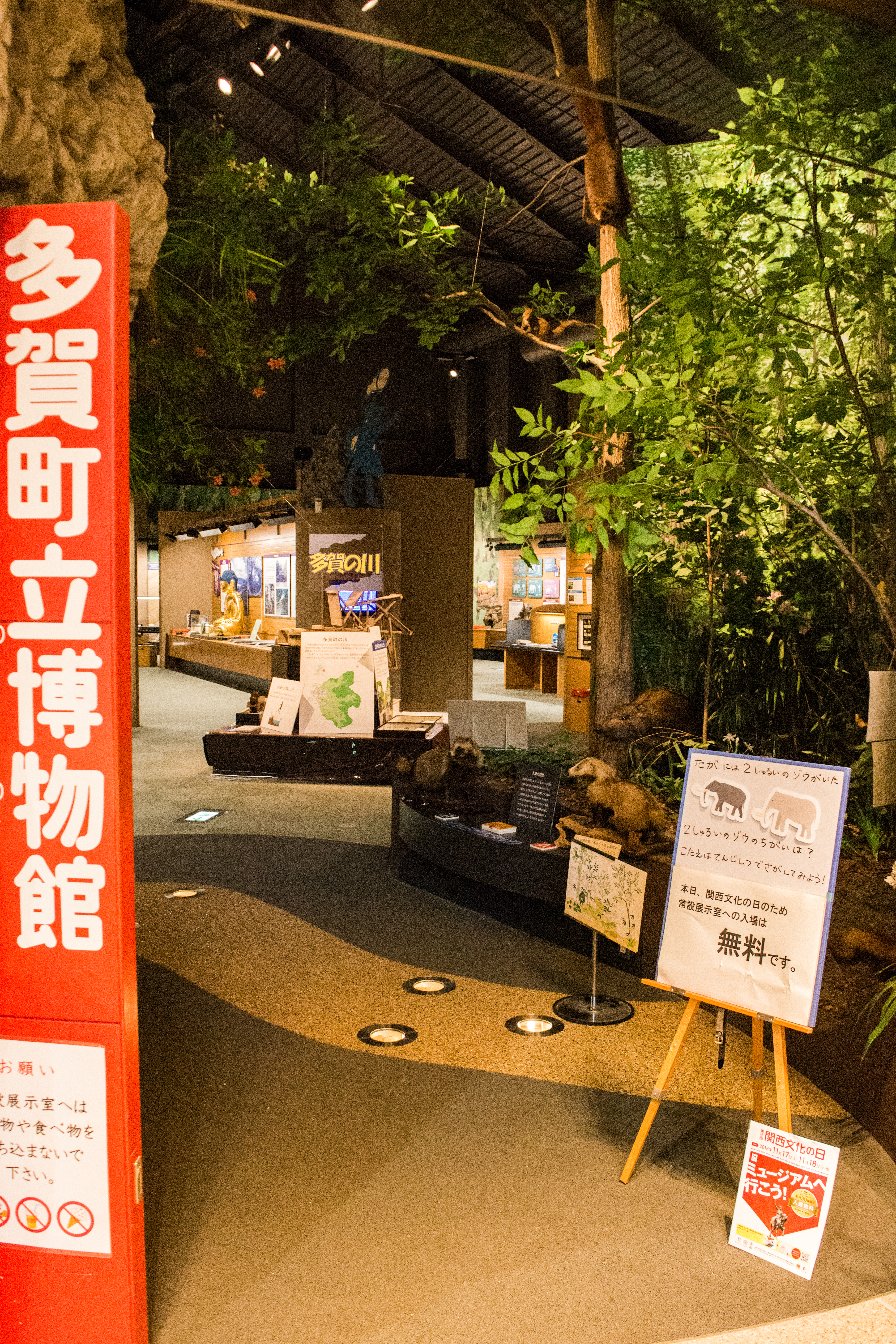 Peremanent exhibition room of Taga Town museum, Shiga, Japan.